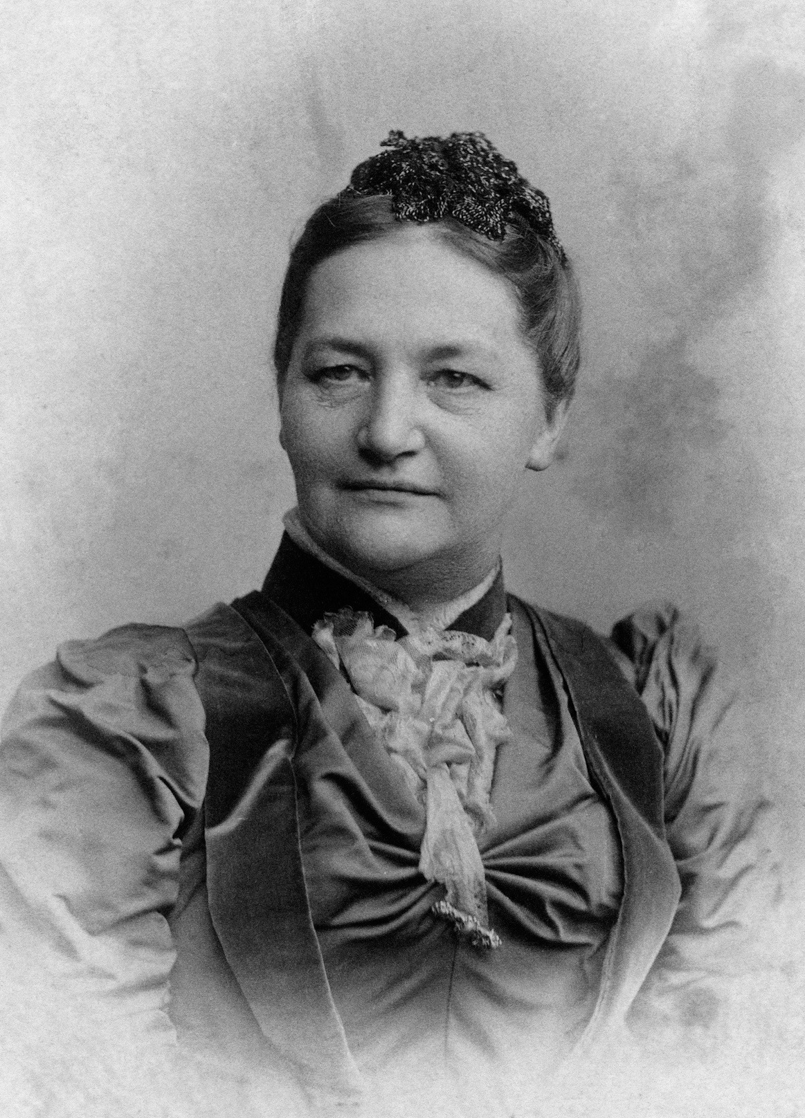 Marie von der Decken born zu Dohna Schlodien 1838-1899